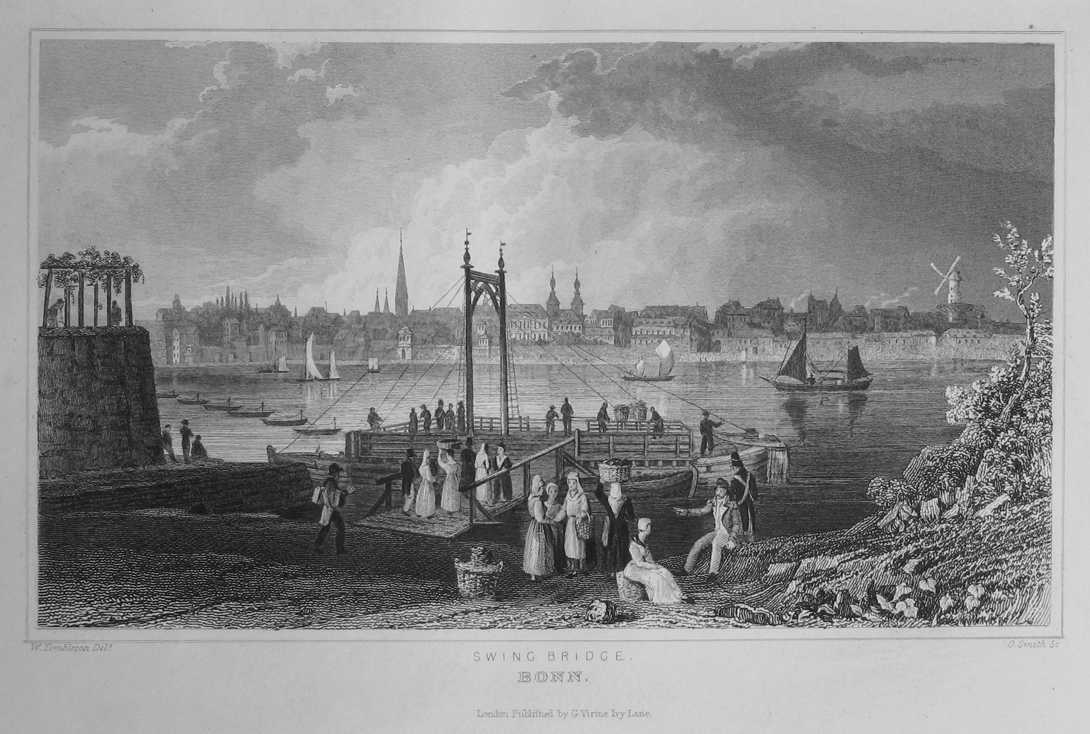 Steel engraving from "Views of the Rhine" by William Tombleson (around 1840): Bonn - Swing Bridge